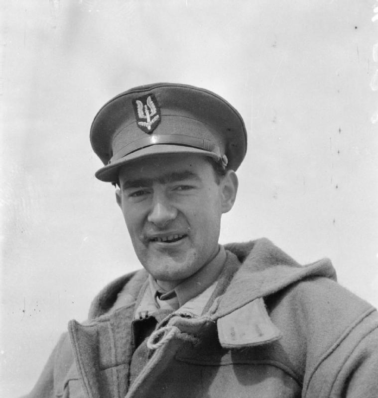 The Special Air Service (sas) in North Africa during the Second World War Portrait of Lt Colonel David Stirling DSO.